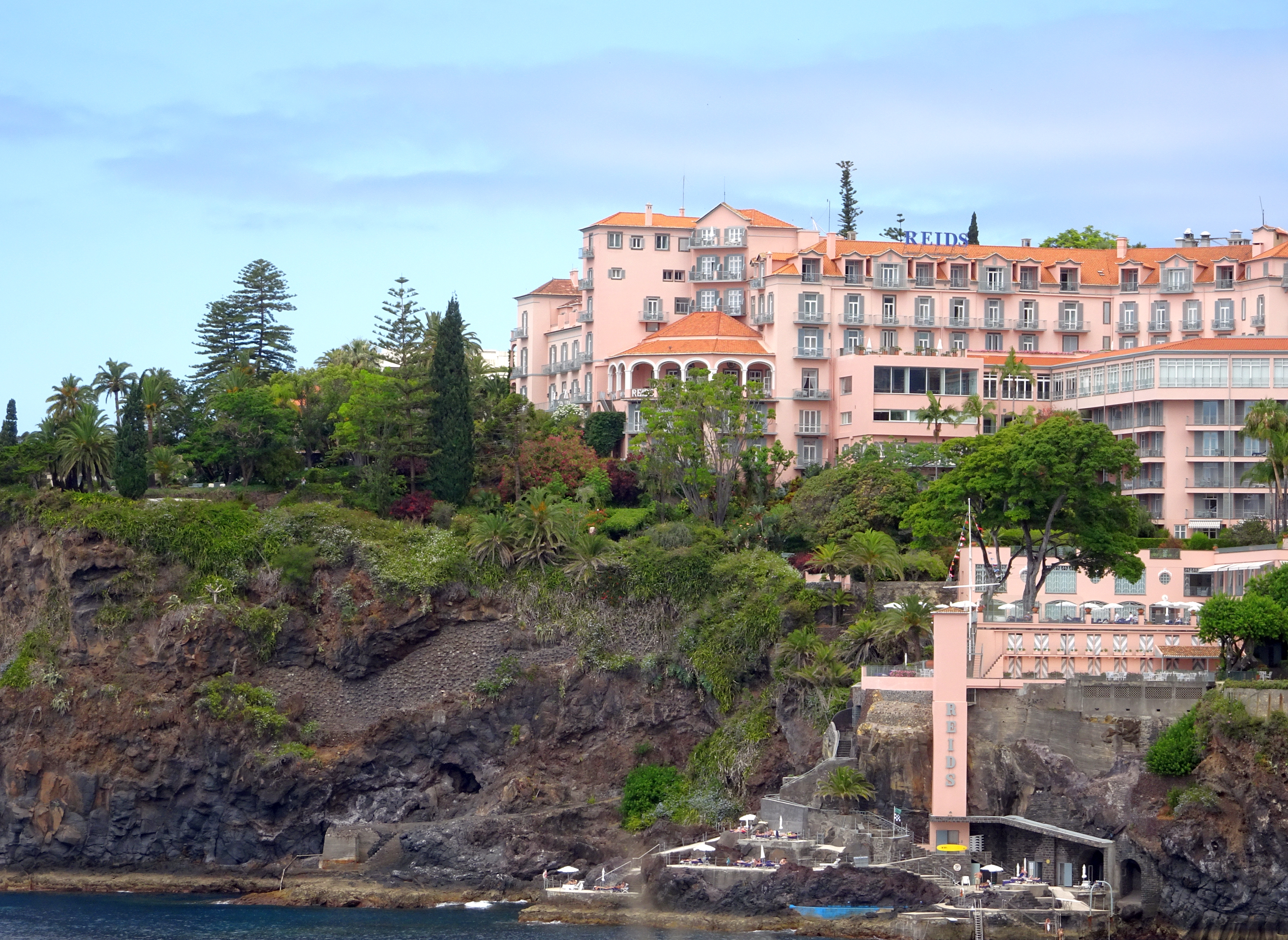 Reid’s Palace in Funchal, View from the seaside